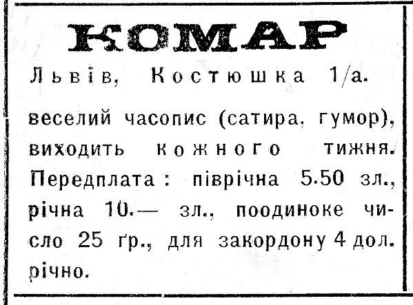 Реклама для газети «Комар»